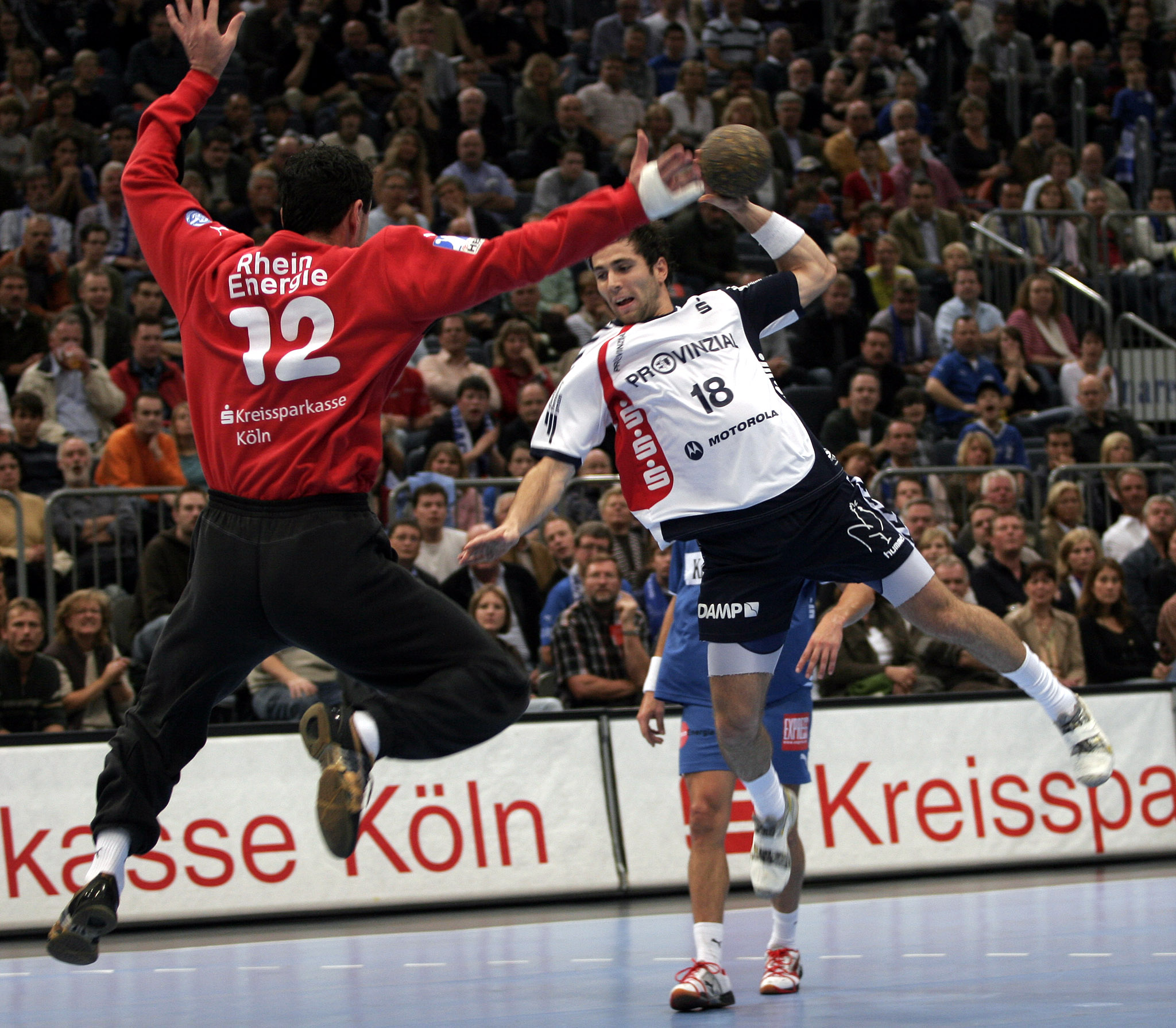 Torge Johannsen, handball player of SG Flensburg-Handewitt, in the Kölnarena prior the gane VfL Gummersbach - SG Flensburg-Handewitt